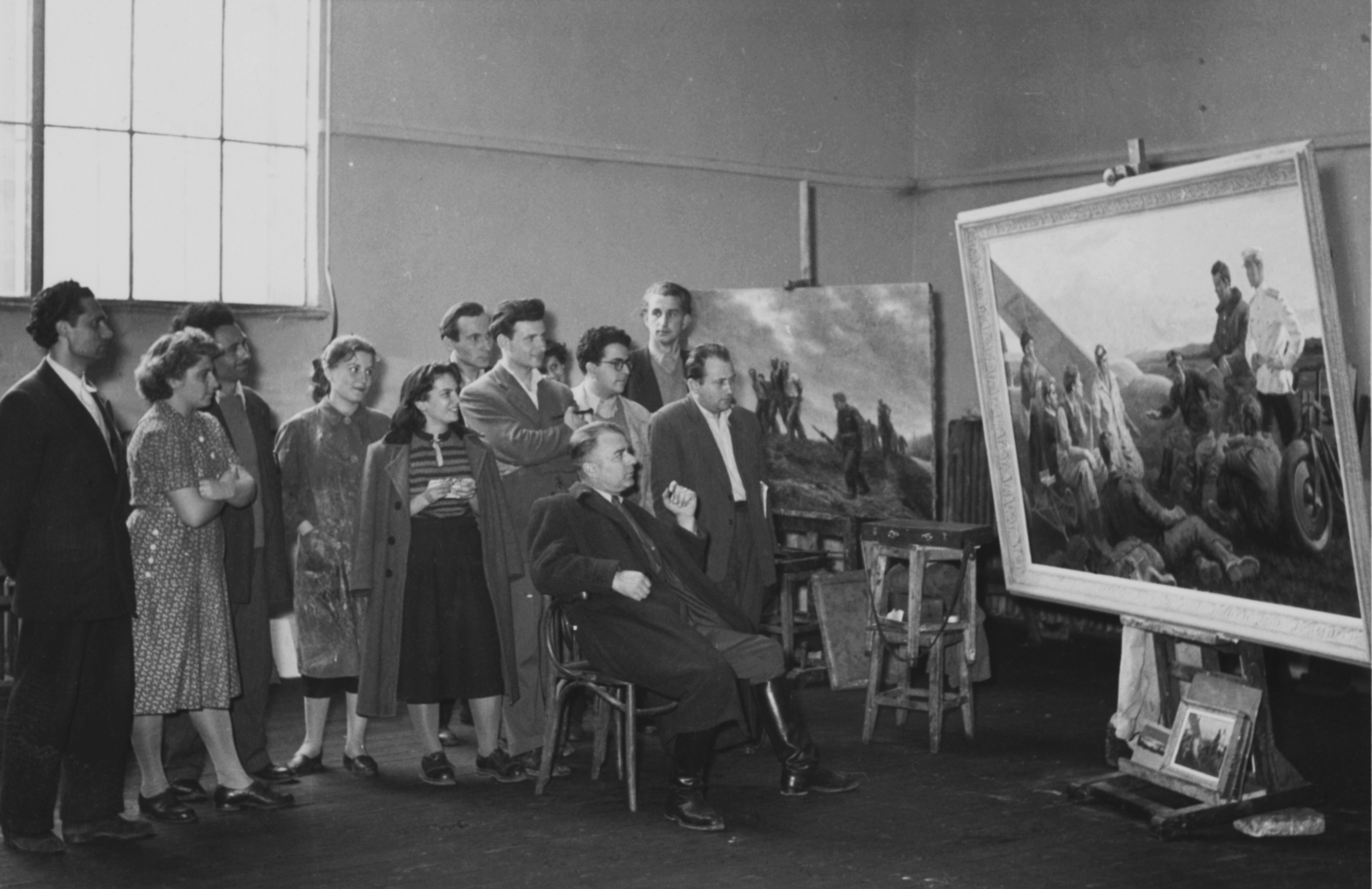 Prof Ilia Petrov at the Bulgarian National Academy of Arts - Sofia, 1955